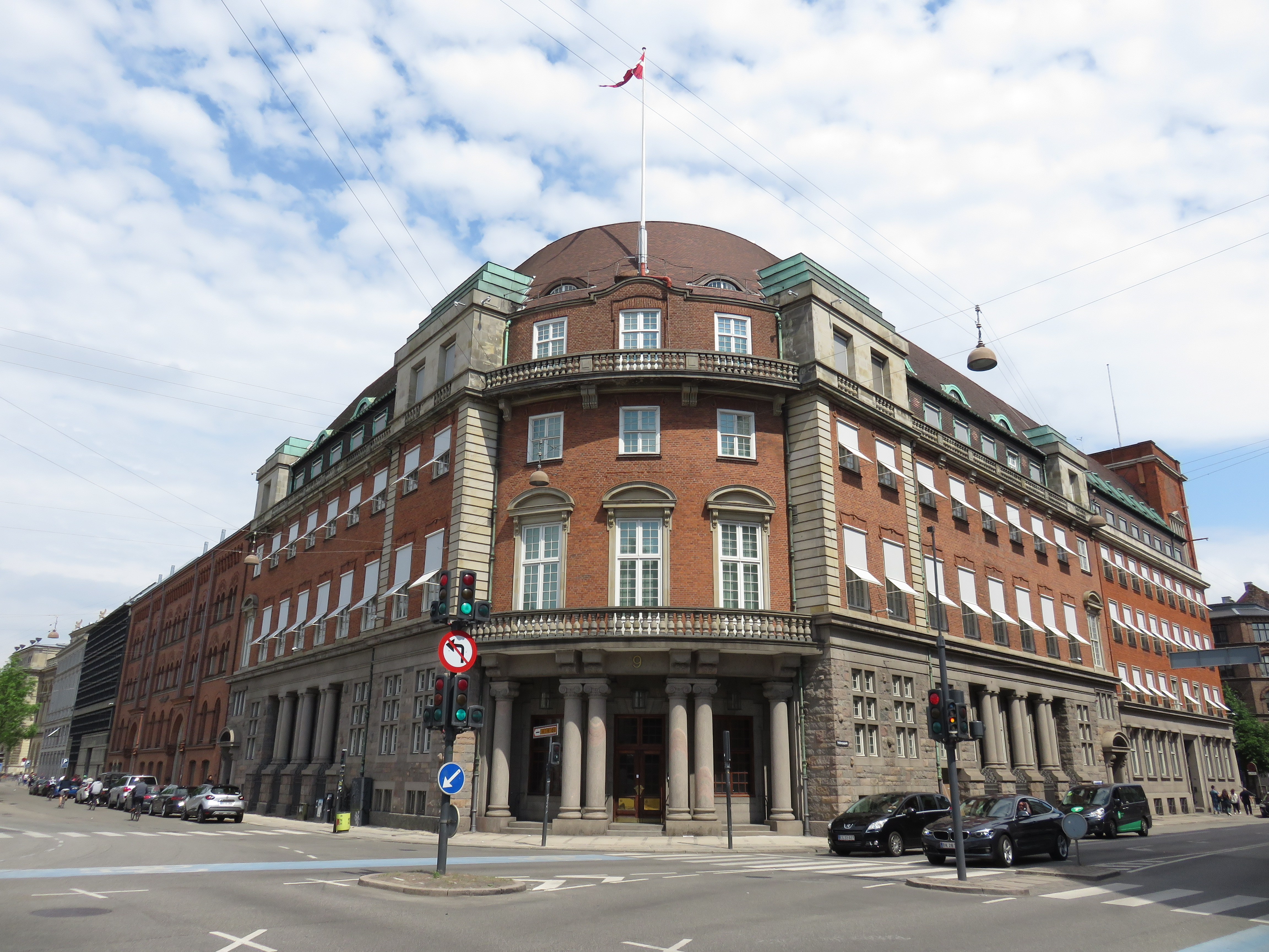 Danish Ministry of Defence in Copenhagen, Denmark in 2018